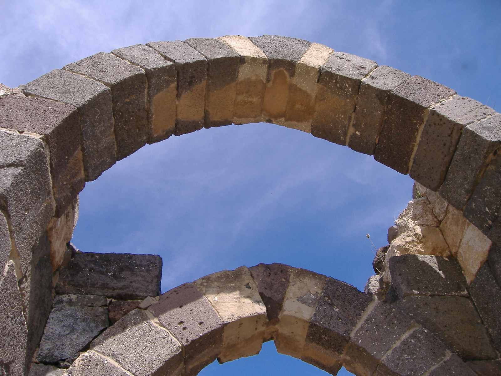 Belvoir Fortress.